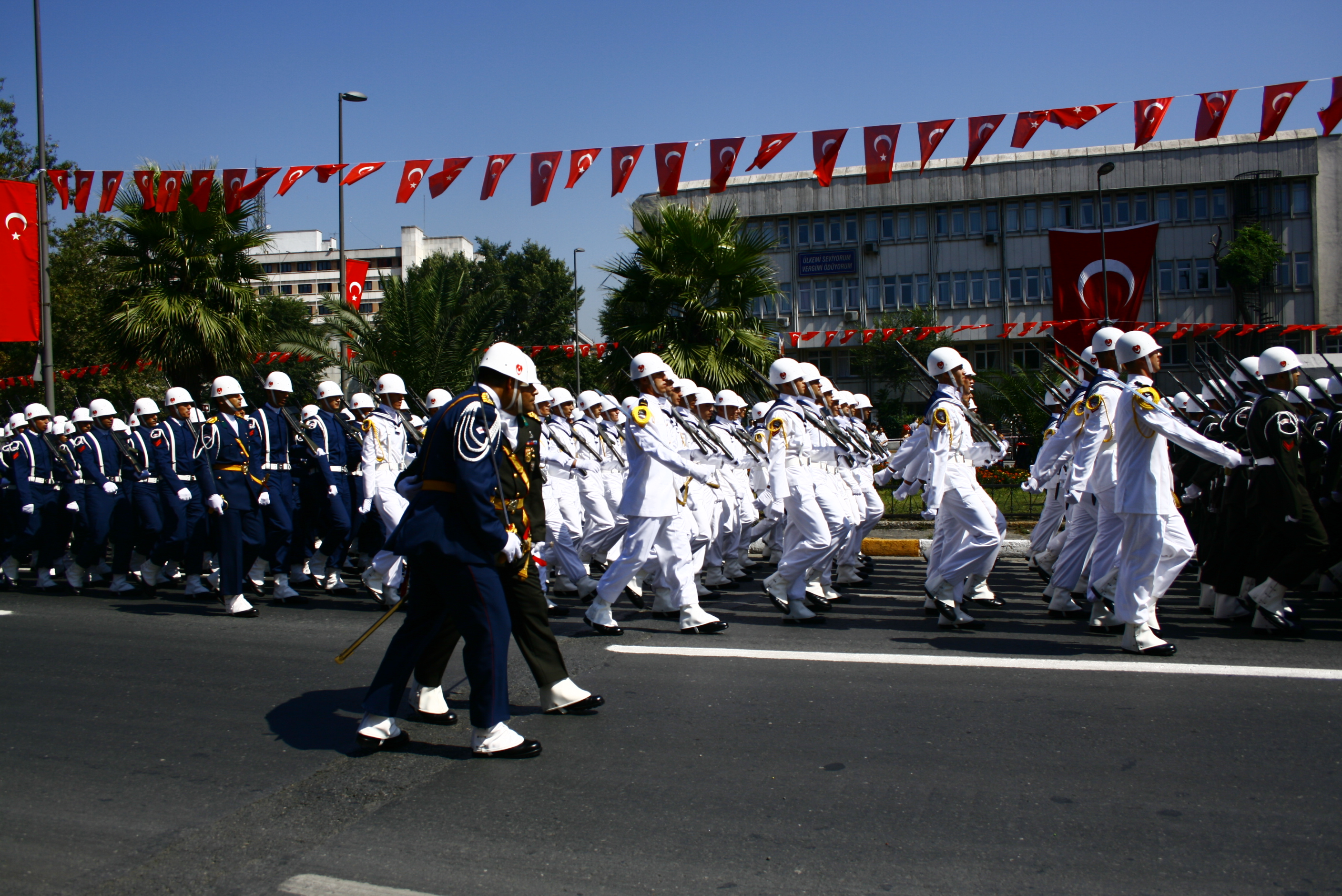 Parade zum Tag des Sieges 30. August 2007 / Parade on the Victory Day on August 30 in Turkey